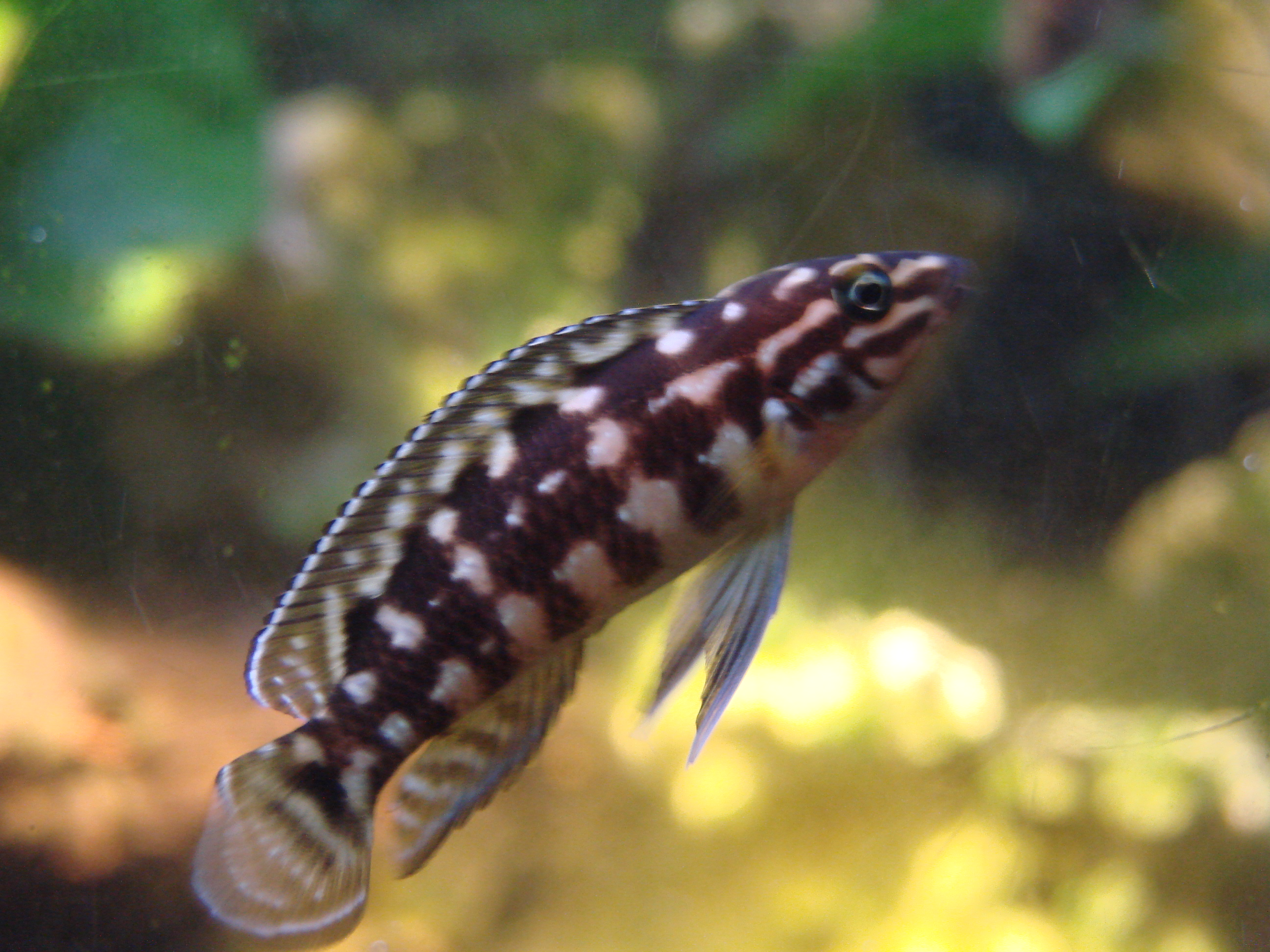 Picture taken in the zoo of Wrocław (Poland): Julidochromis marlieri (Poll, 1956)